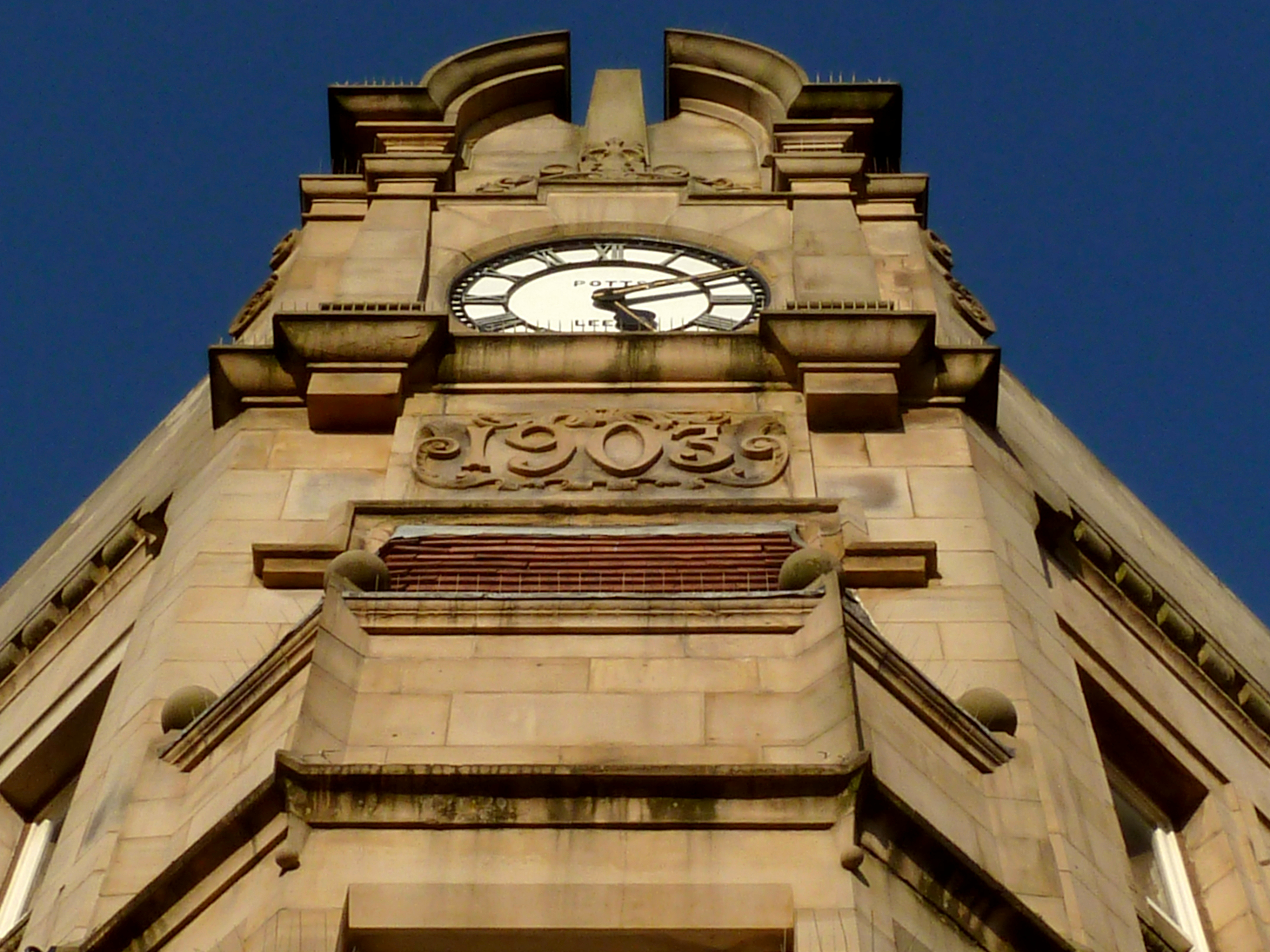 Former London and Yorkshire Bank, Church Street, Barnsley. The foundation date is unknown. It was altered in 1892 with a new carved stone doorway designed by Wade & Turner, and carved by Benjamin Payler. It was then at least partially rebuilt in 1903, including the doorway.